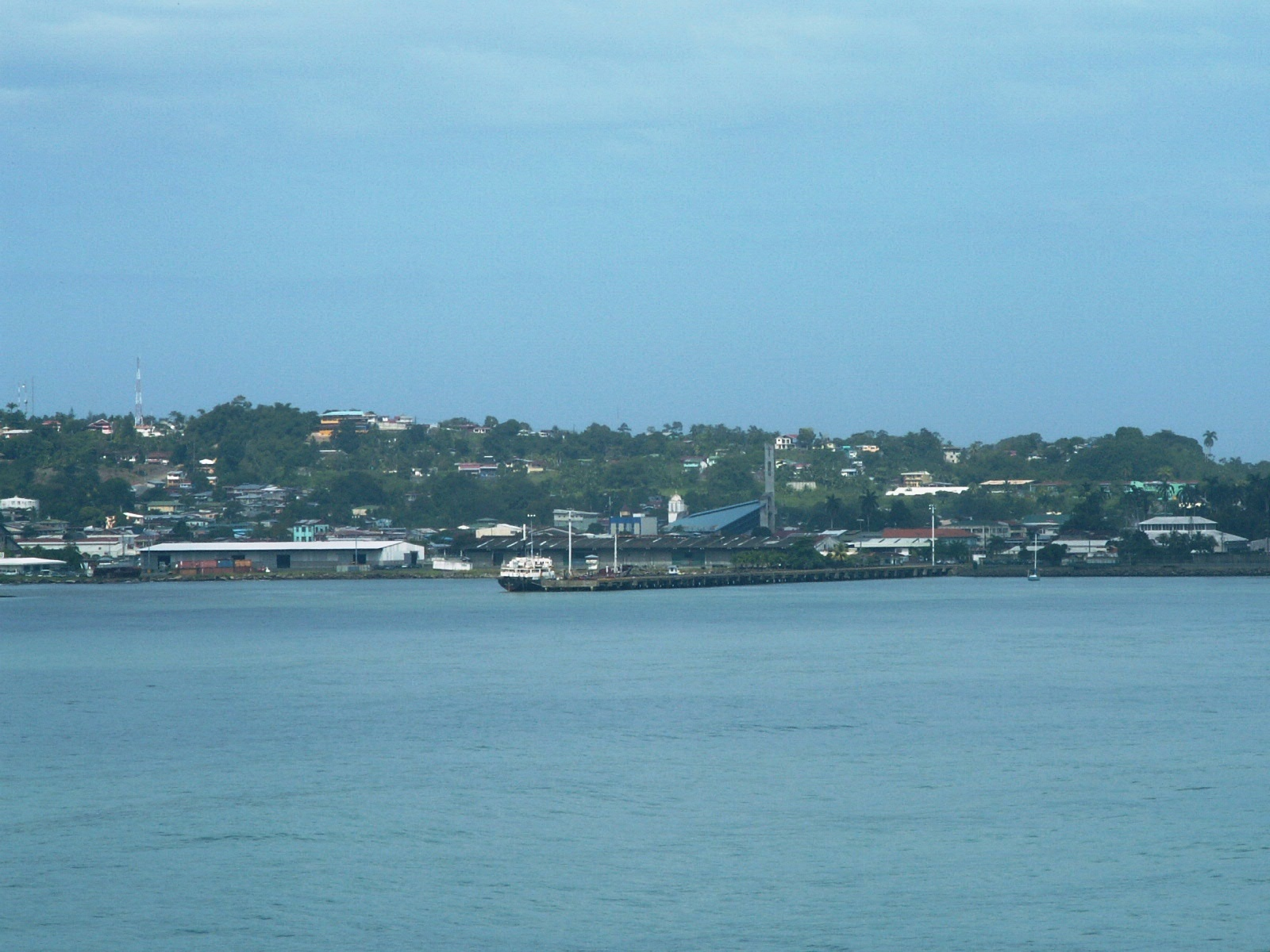 Picture of Puerto Limon , Costa Rica